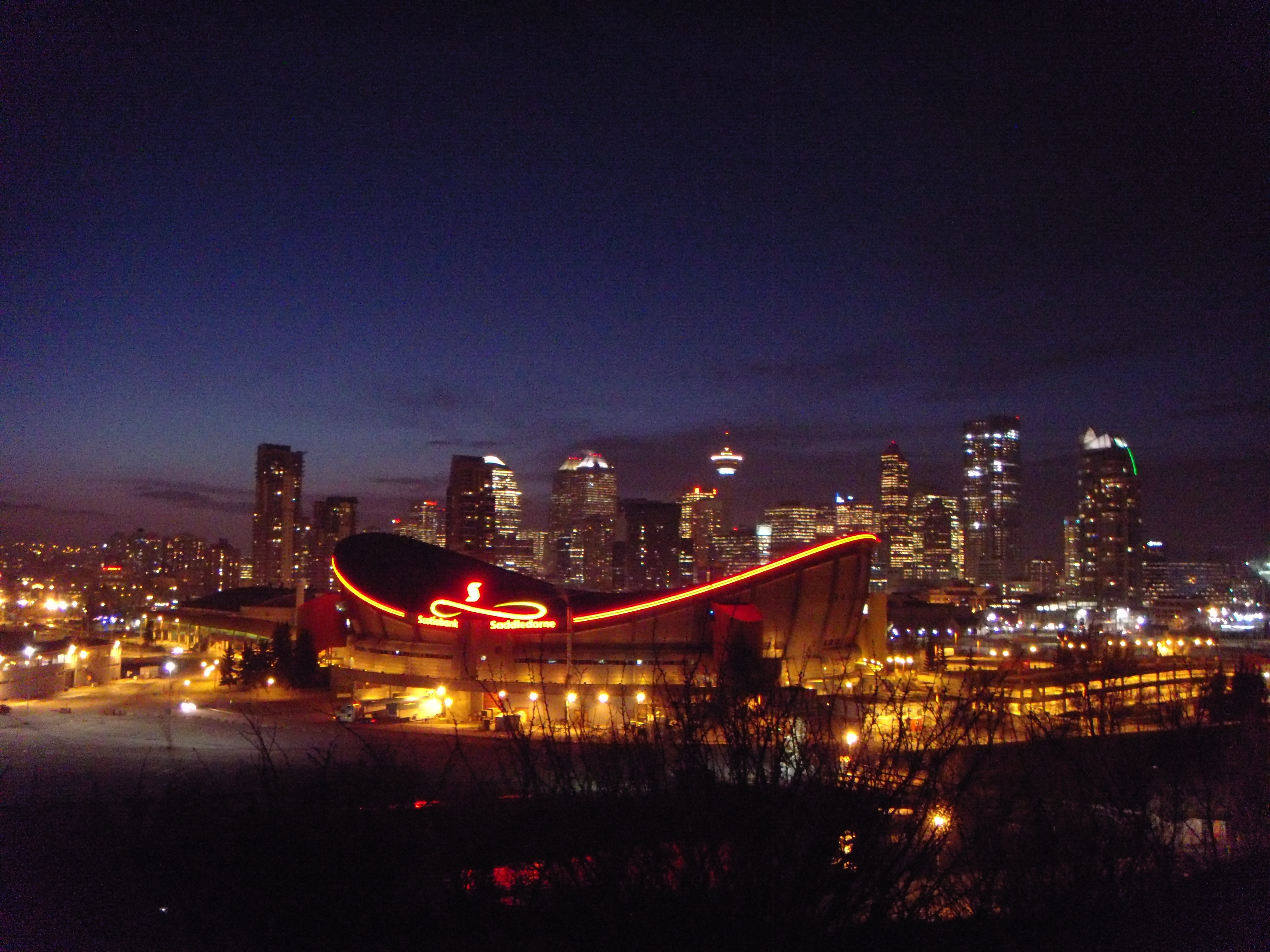 Olympic Saddledome from a favourite spot in Ramsay.